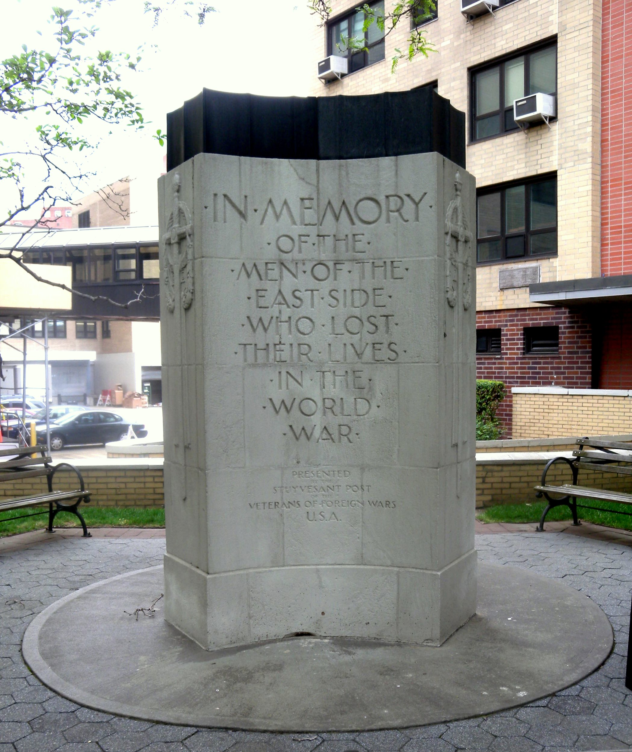 Looking north from 23d St sidewalk at memorial in grounds of Veterans Hospital on a cloudy afternoon.